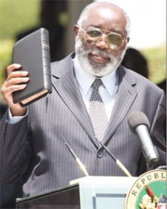 Harun Mwau taking oath of office in 2007